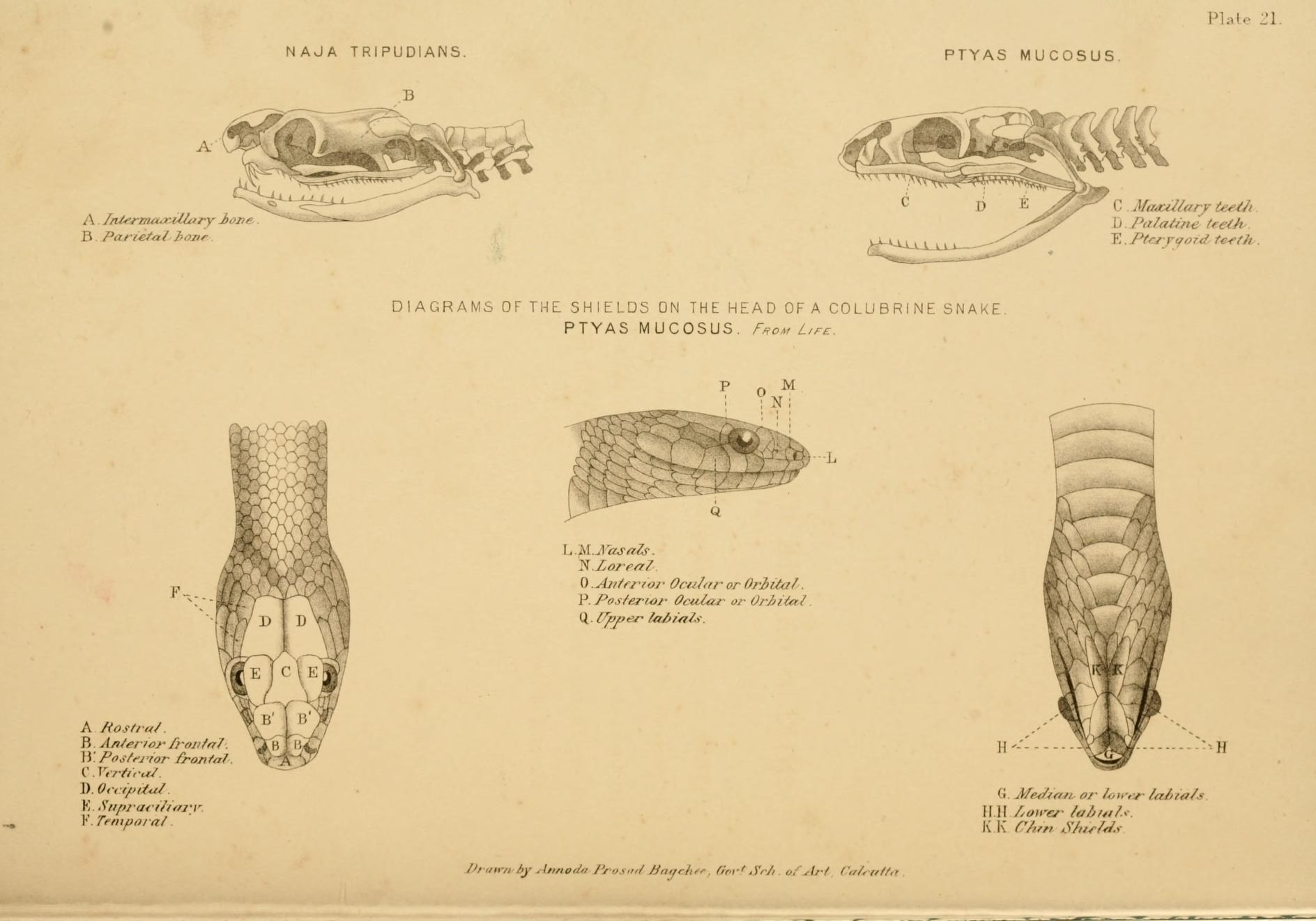 The poisonous snakes of India.. London:J. & A. Churchill,1878.. The poisonous snakes of India, by Joseph Ewart (1878) For description of the snakes